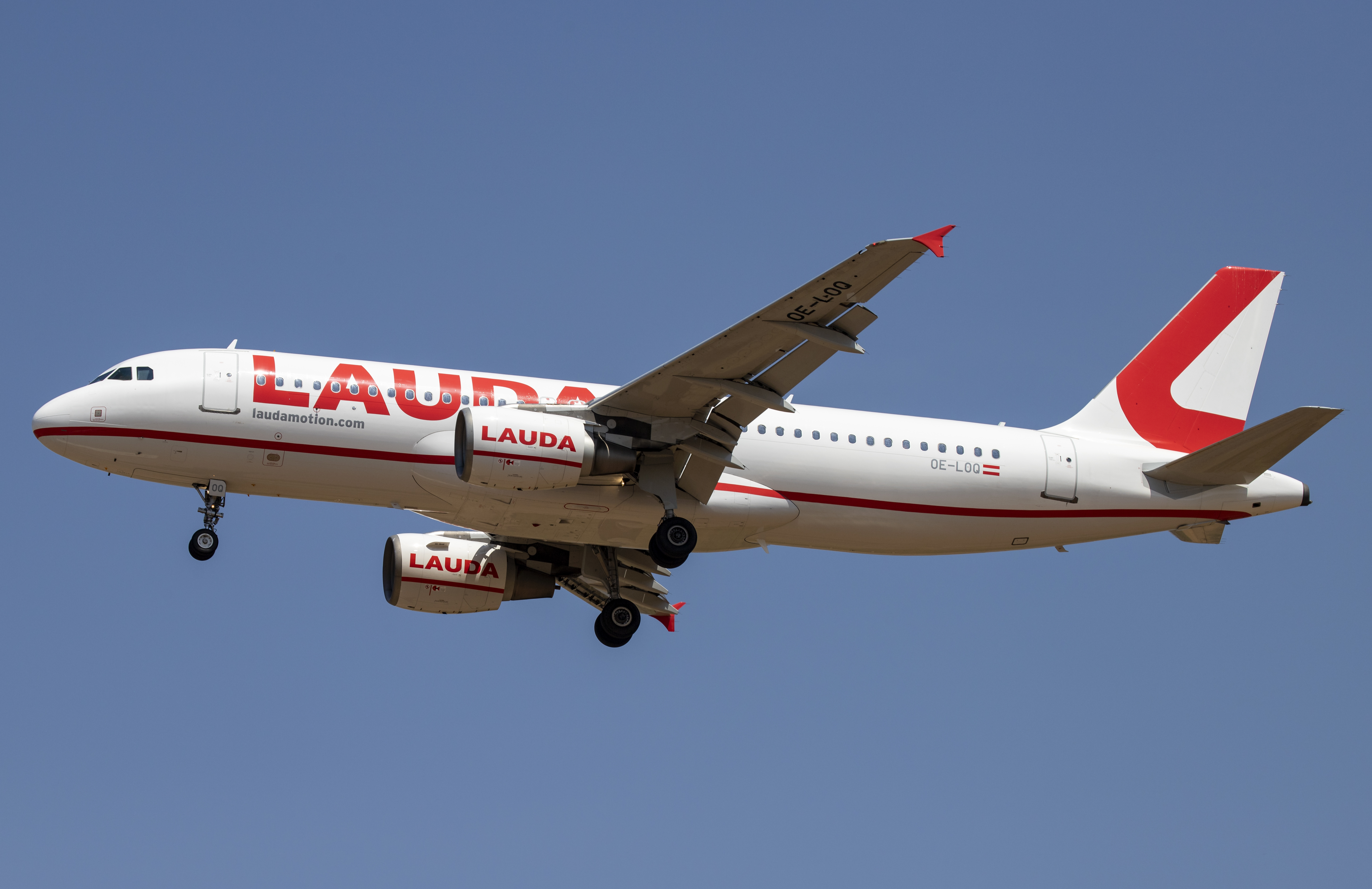 Palma de Mallorca/Son Sant Joan Airport, Airbus A320-200 (OE-LOQ) of Laudamotion approaching runway 24L.